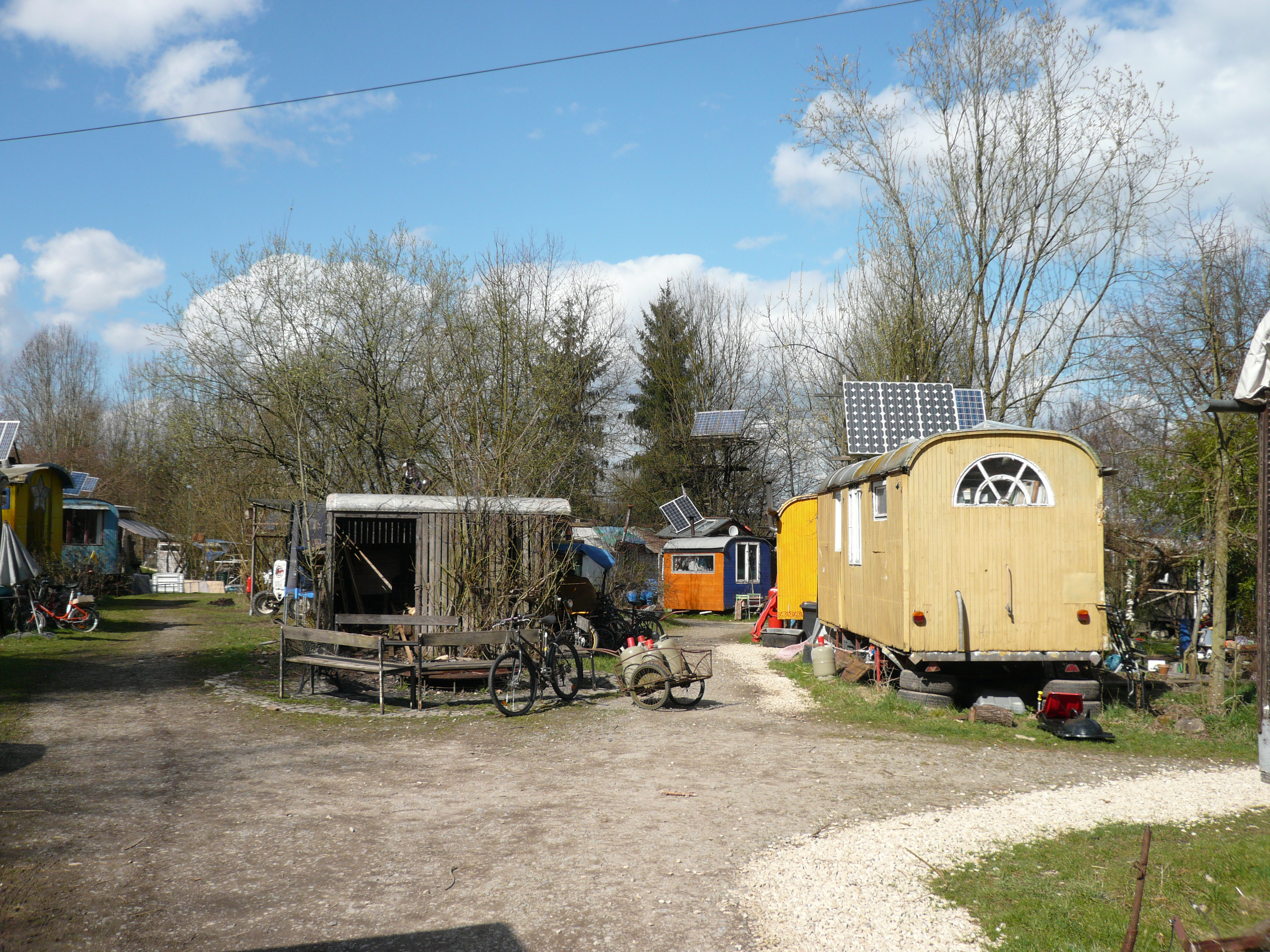 Wagenburg, unconventional living place in Tuebingen